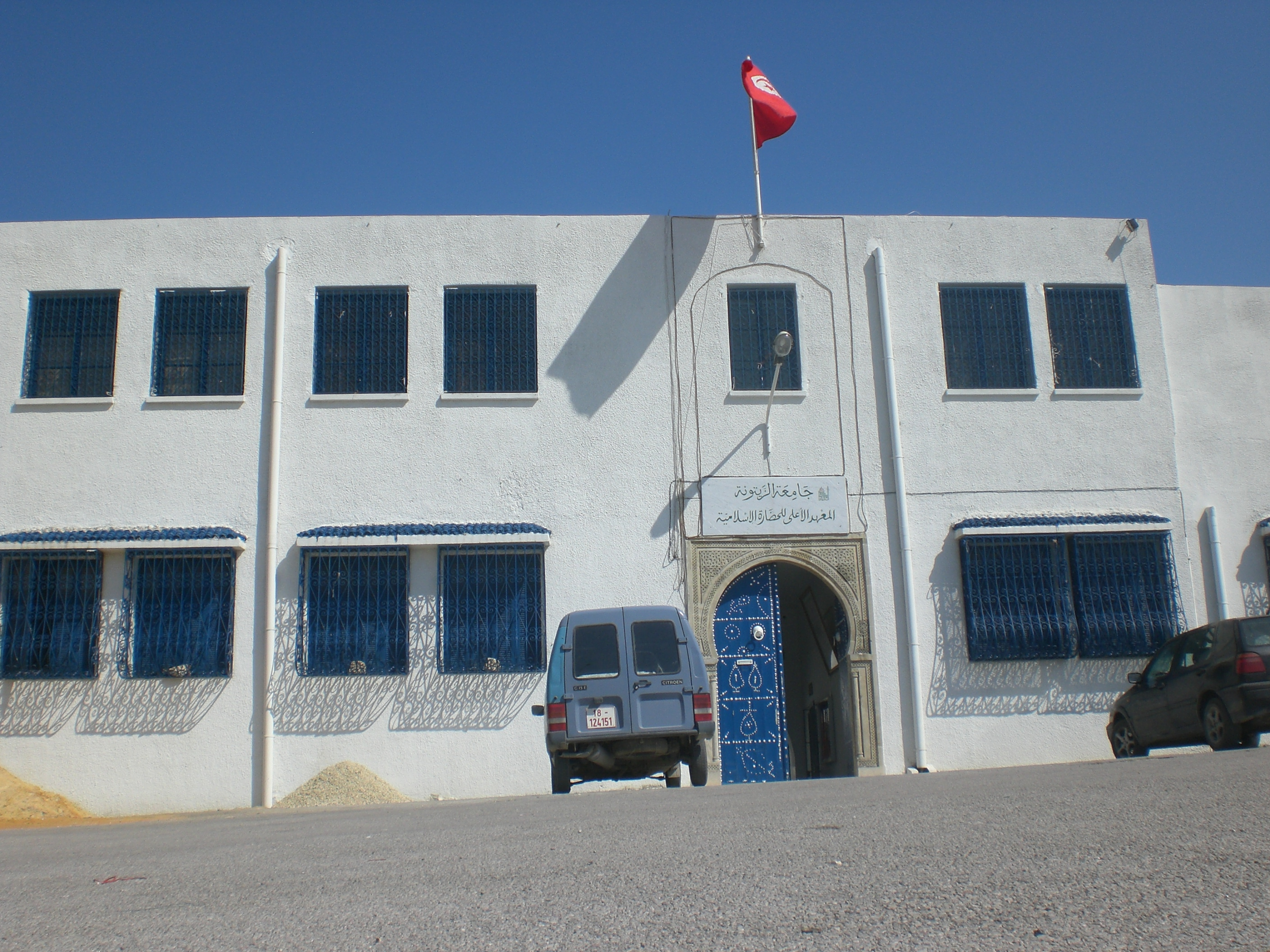 The higher Institute of Islamic Civilisation-University of Ez-Zitouna-Tunis